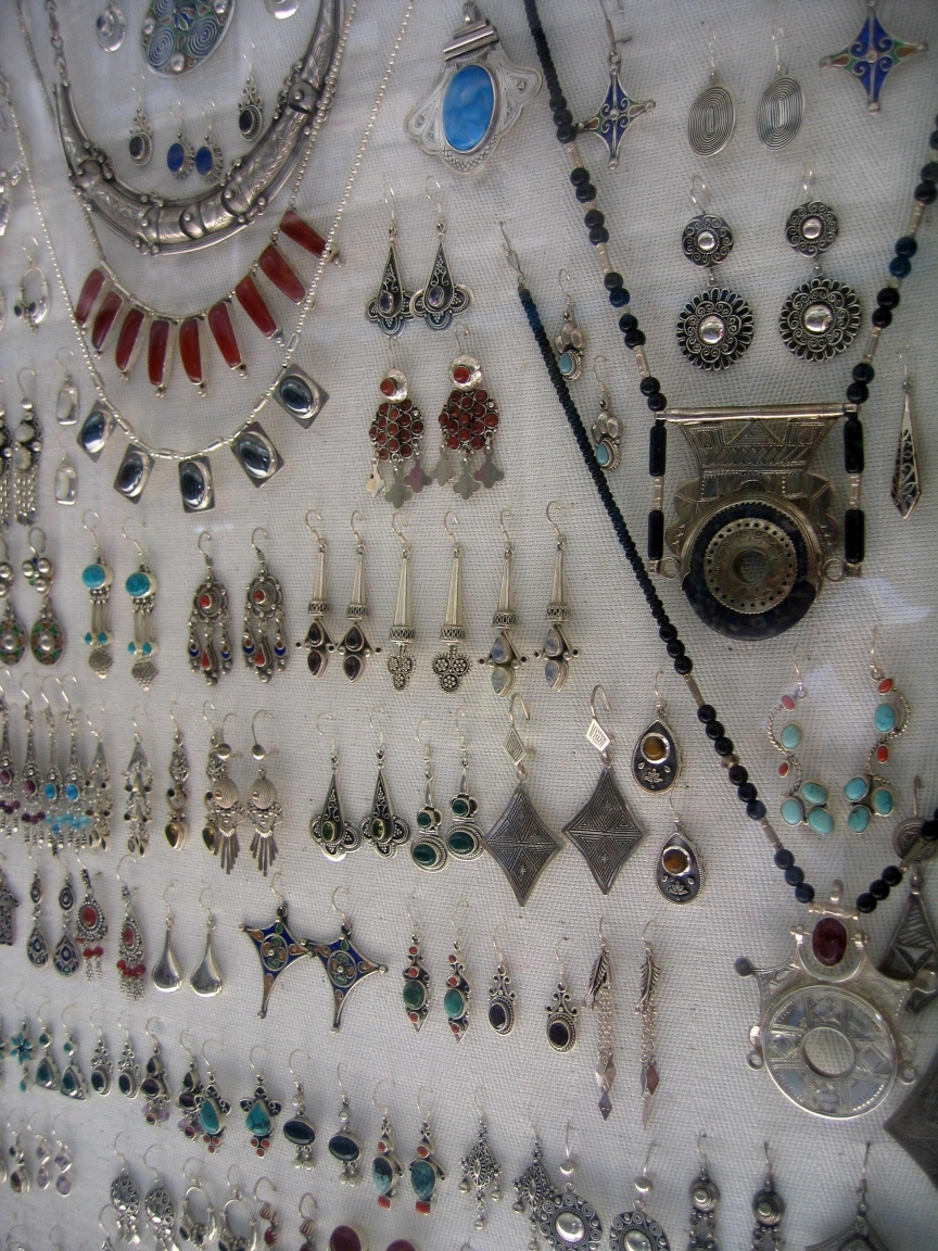 Berber silver jewelry on display at a bazaar in the city of Essaouira, Morocco